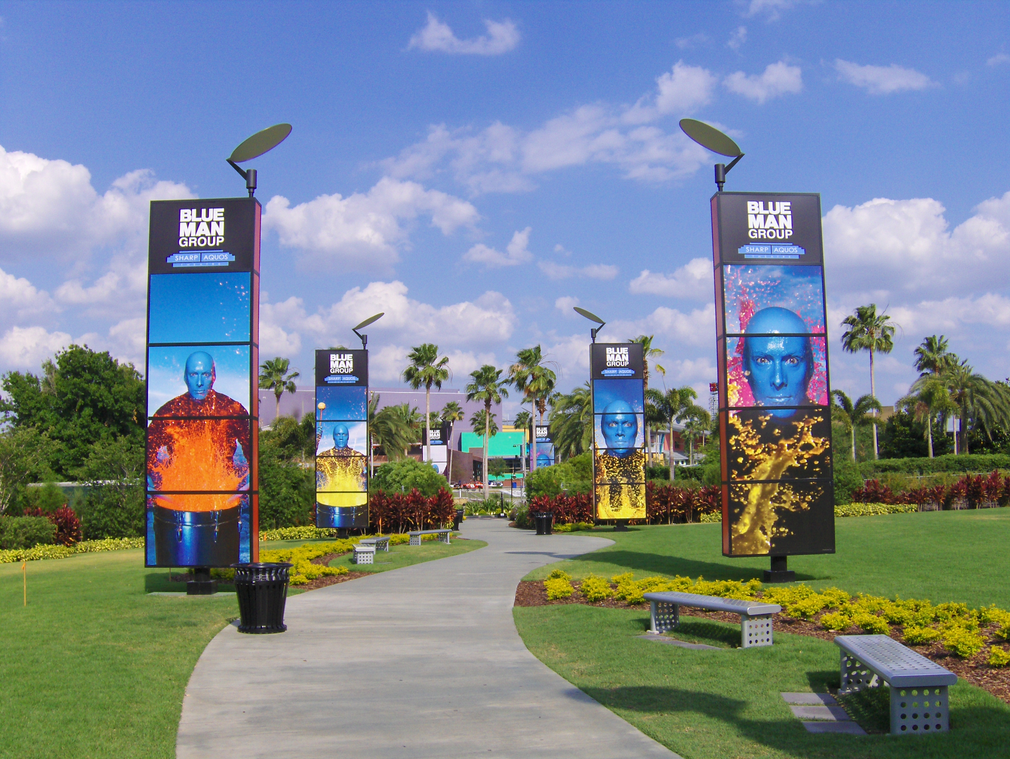 Blue Man Group at Sharp Aquos Theatre in Orlando, Florida.